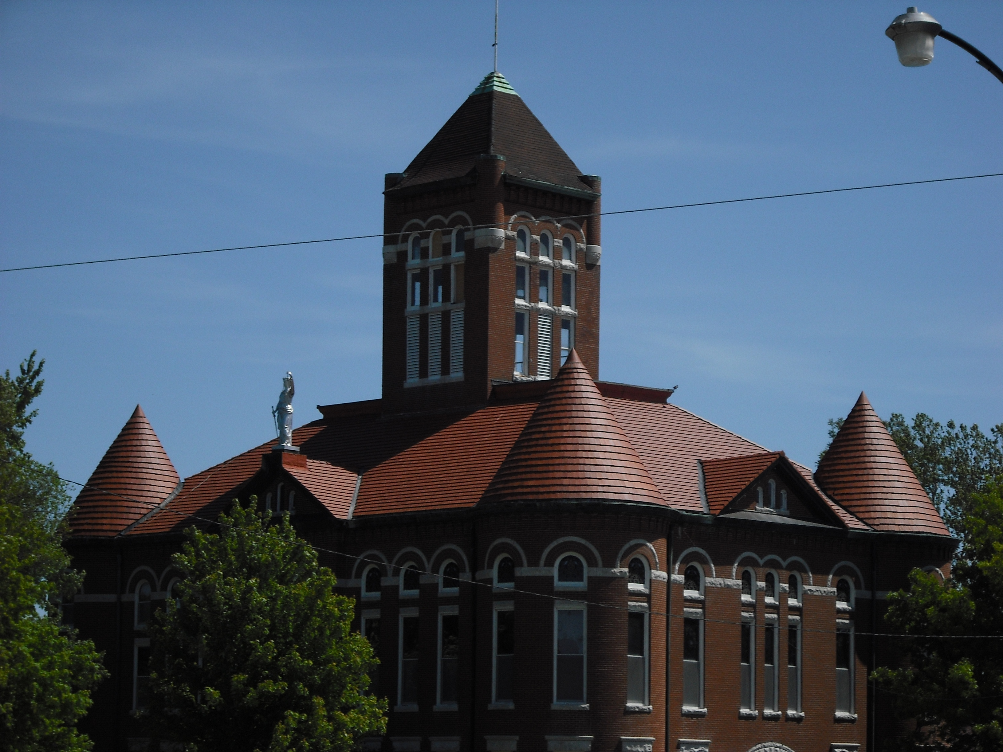 Anderson County Courthouse, located at the intersection of Fourth and Oak Streets in Garnett, Kansas, United States. Built in 1902, the Romanesque courthouse is listed on the National Register of Historic Places.